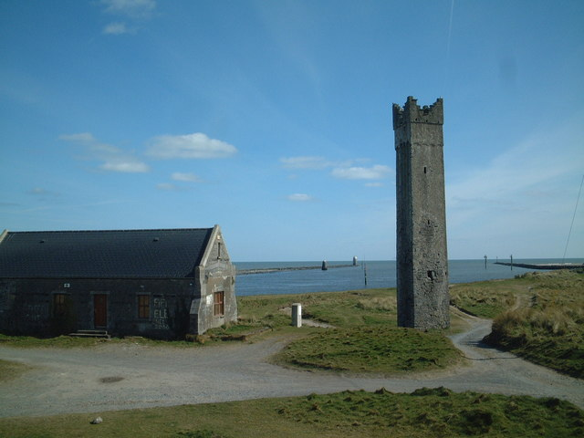 Maiden Tower, Mornington, and Mouth of River Boyne Maiden Tower, erected by 1582, and 19th-century Lifeboat Station boathouse at Mornington, Co. Meath. The Lifeboat station closed in 1926.